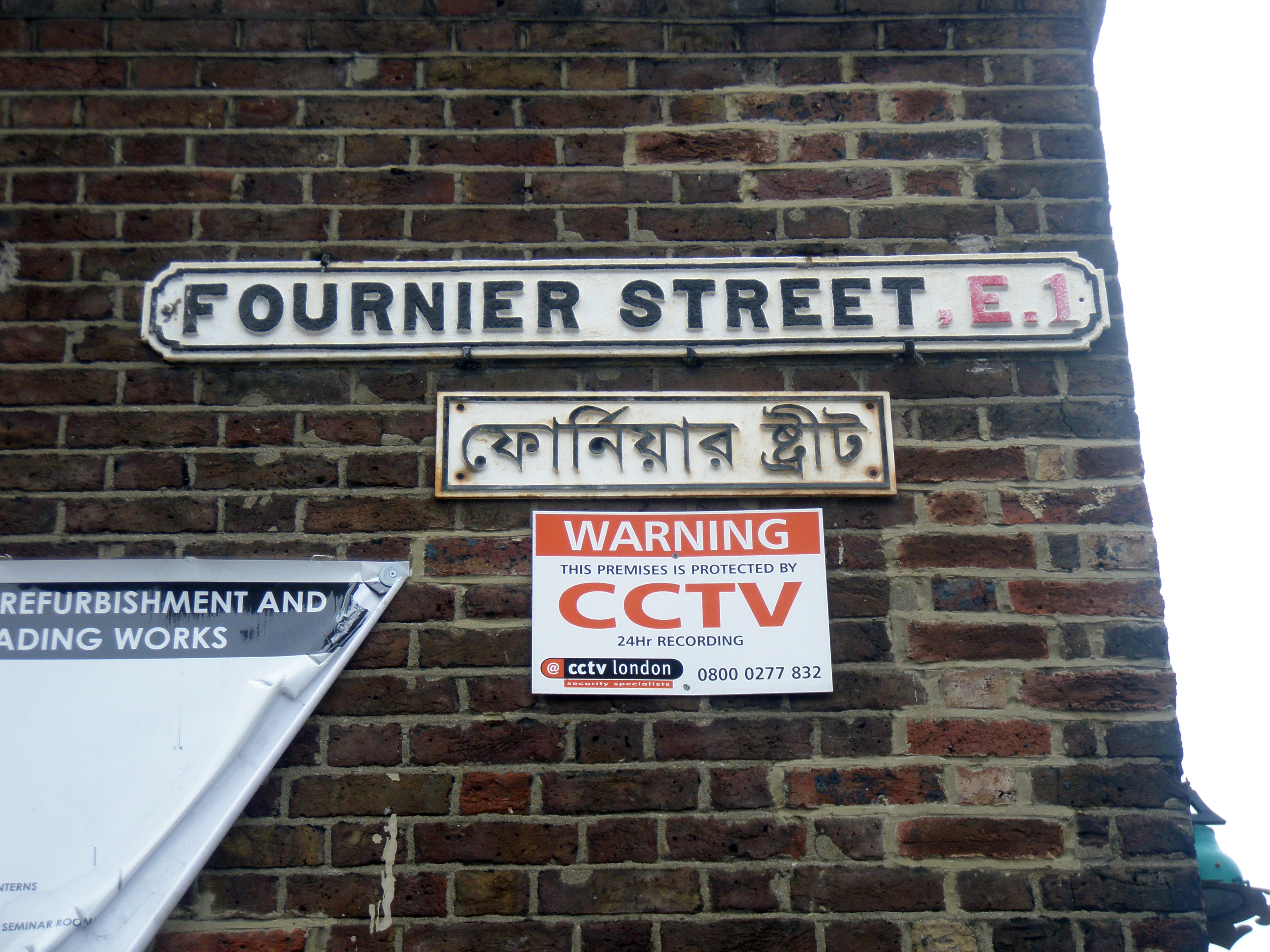 Fournier Street road sign, in London